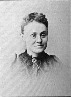 Alice Bellvadore Sams Turner